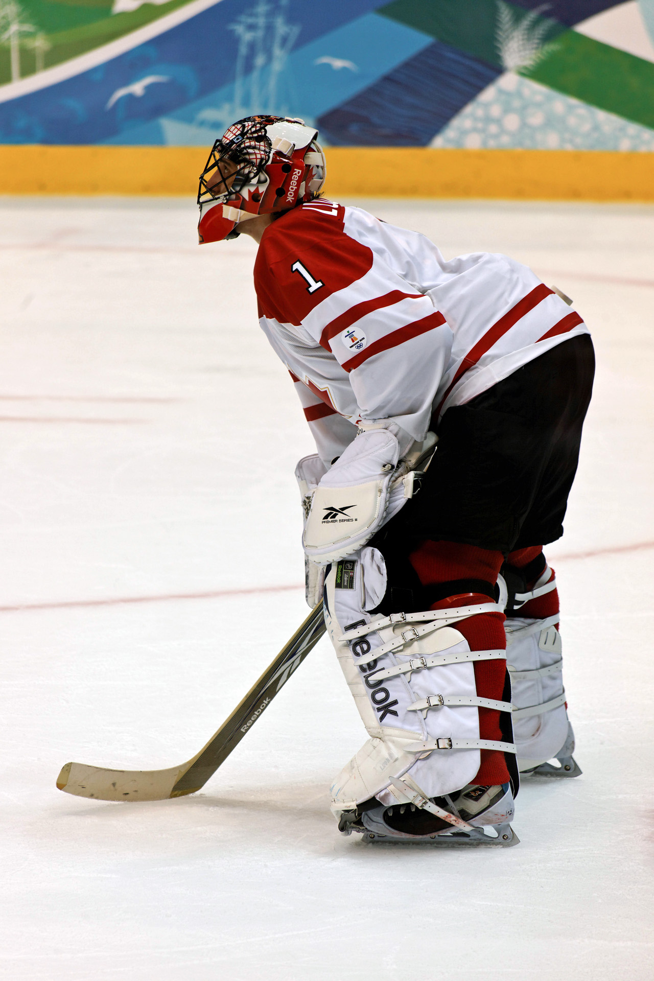 Canada goaltender Roberto Luongo gets ready for the start of overtime of the gold medal game against United States during the 2010 Winter Olympics.